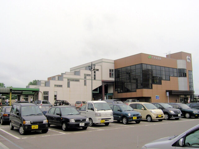 Ishikari-Tōbetsu Station on the Sassho Line in Hokkaido, Japan